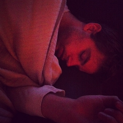 A sleeping young man under a blanket.